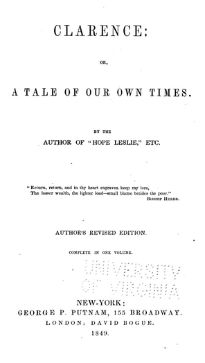 Clarence: or, A tale of our own times, By Catharine Maria Sedgwick